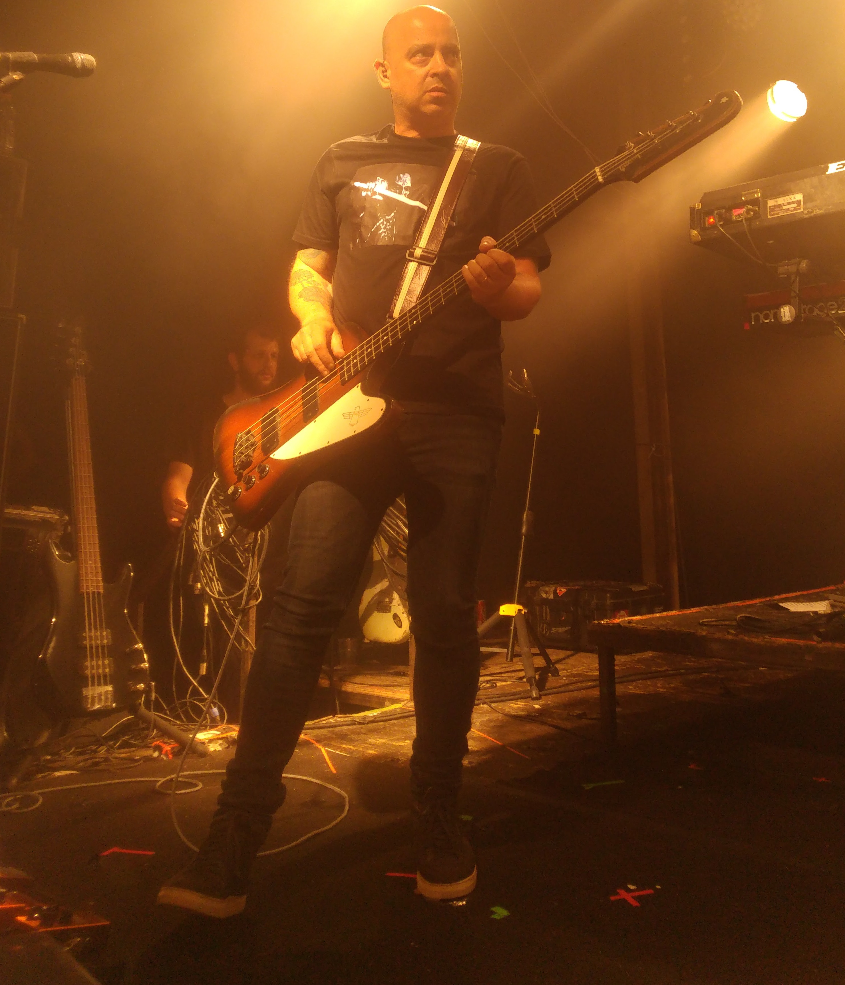 Mashina - The Barby Club, Tel Aviv June 2017